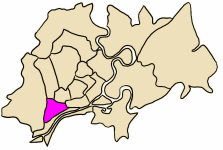 position of district 6 in an outline of the core area of HCMC (Ho Chi Minh City, Vietnam) - ISO code VN-F-HC. Keywords: map, outline, city, Ho Chi Minh City, HCMC, HCM, district 6, quan 6.